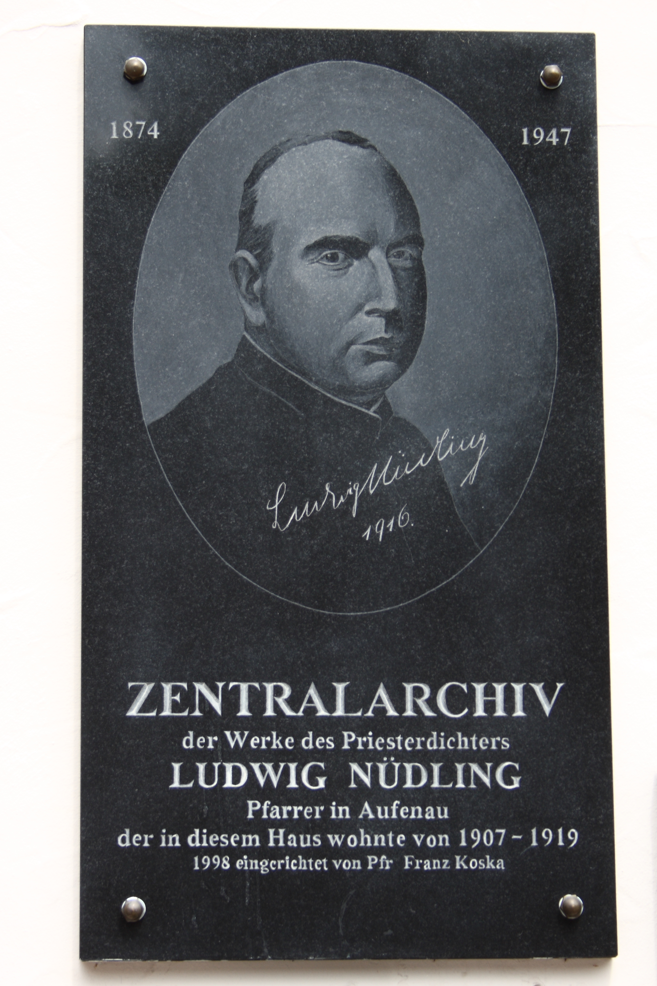 Zentralarchiv für Ludwig Nüdling im Pfarrhaus der katholischen Pfarrgemeinde Zur Schmerzhaften Muttergottes in Aufenau, einem Ortsteil von Wächtersbach im Main-Kinzig-Kreis (Hessen), Leipziger Straße 3